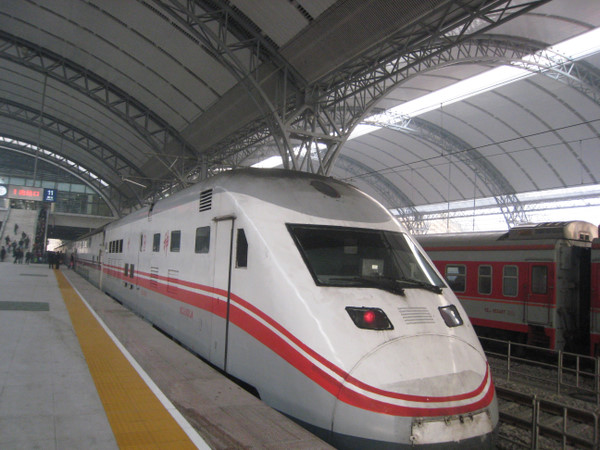 Hankou Railway Station "ShenZhou" diesel motor train-set to Huangshidong Railway Station